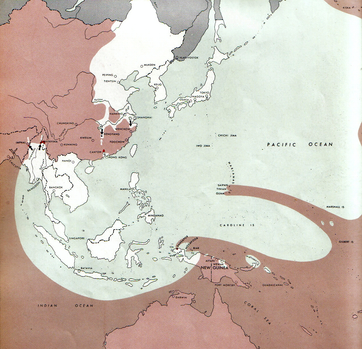 Map of the front against Japan as of 15 Aug 1944: This map is taken from the source "Atlas of the World Battle Fronts in Semimonthly Phases to August 15th 1945: Supplement to The Biennial report of The Chief of Staff of the United States Army July 1, 1943 to June 30 1945 To the Secretary of War". (See Cover, Forward and Map details)